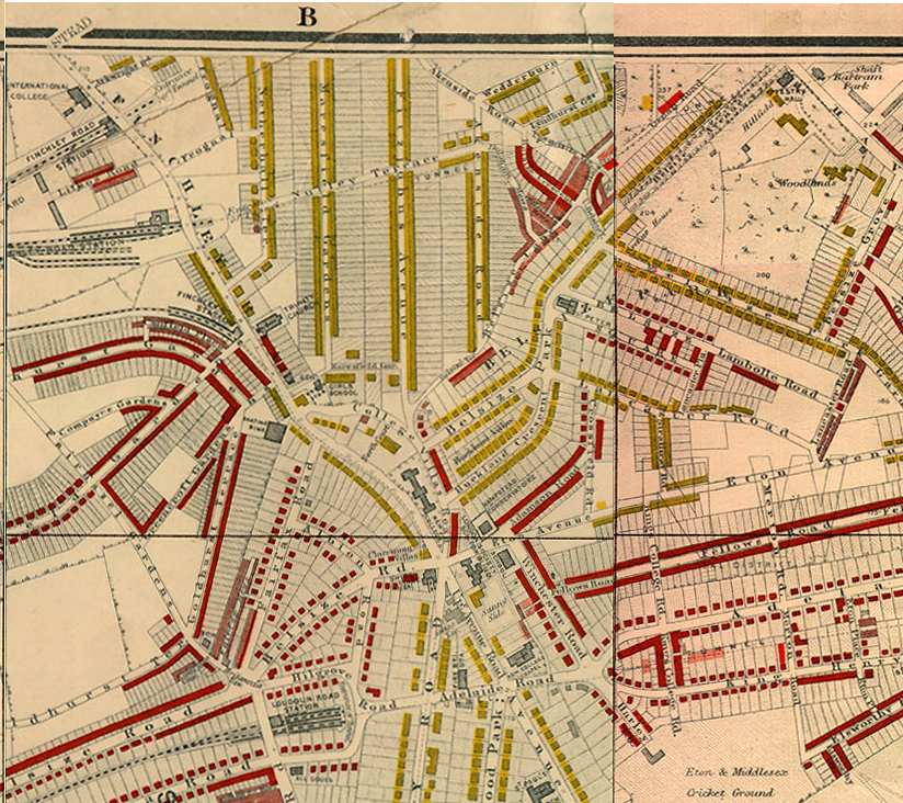 Booth's poverty map of London Lowest class. Vicious, semi-criminal. Very poor, casual. Chronic want. Poor. 18s to 21s a week for a moderate family. Mixed. Some comfortable, others poor. Fairly comfortable. Good ordinary earnings. Middle-class. Well-to-do. Upper-middle and Upper class. Wealthy.